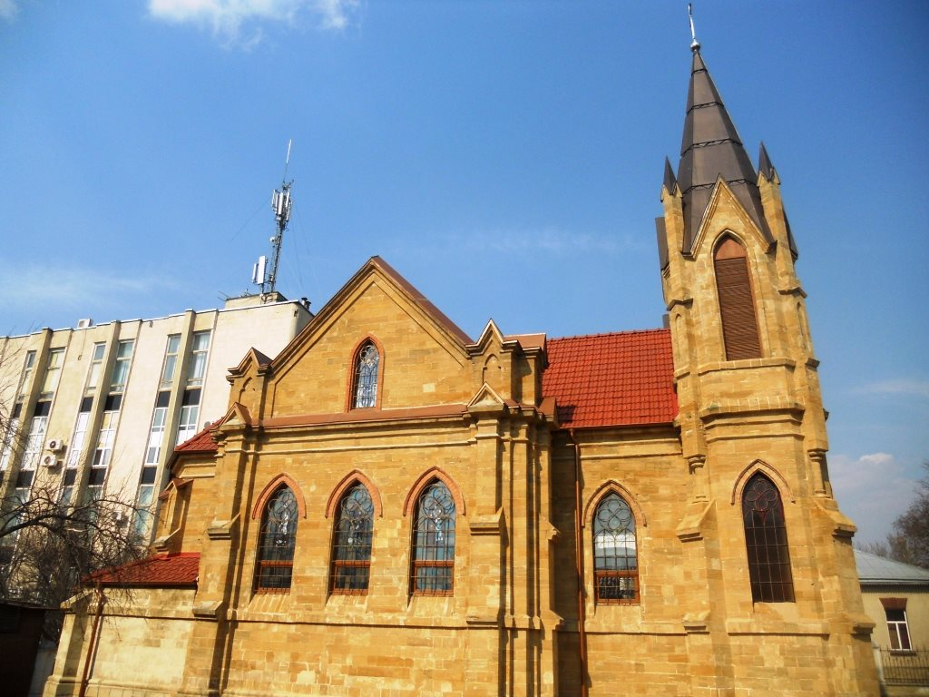 Image of the Roman Catholic church in Orhei, Republic of MoldovaRomână: Vedere a Bisericii romano-catolice din Orhei, Republica Moldova